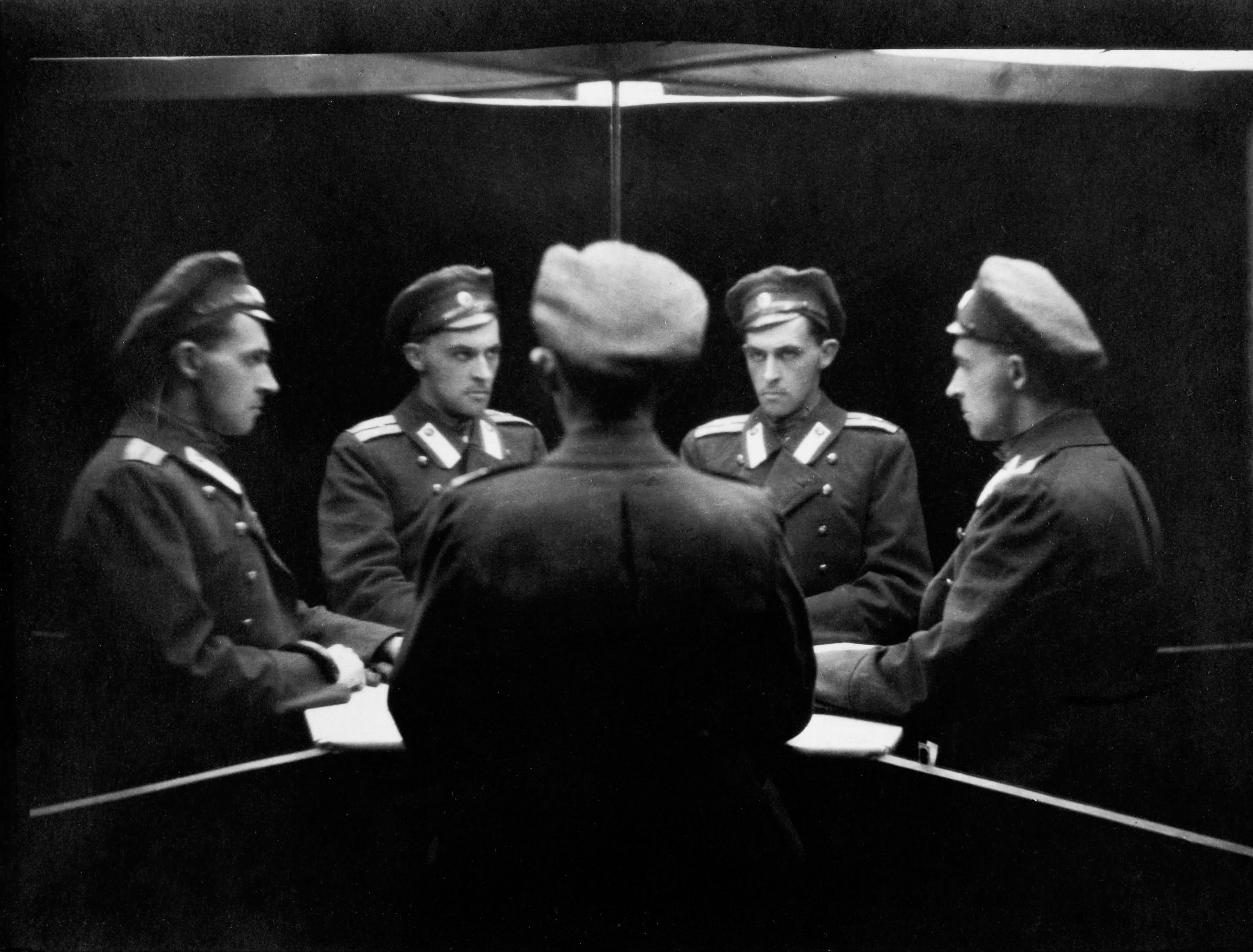 Miltiple self-portrait in mirrors, Saint Petersburg, 1915–1917. The picture was taken in the cab with mirrors; Witkiewicz in the officer's uniform of Pavlovsky Regiment.